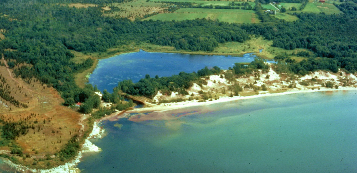 Aerial photograph of Black Pond Wildlife Management Area and El Dorado Beach Preserve; the photograph was taken facing east from above Lake Ontario. The original image has been cropped and color adjusted by Wikipedia user:Easchiff